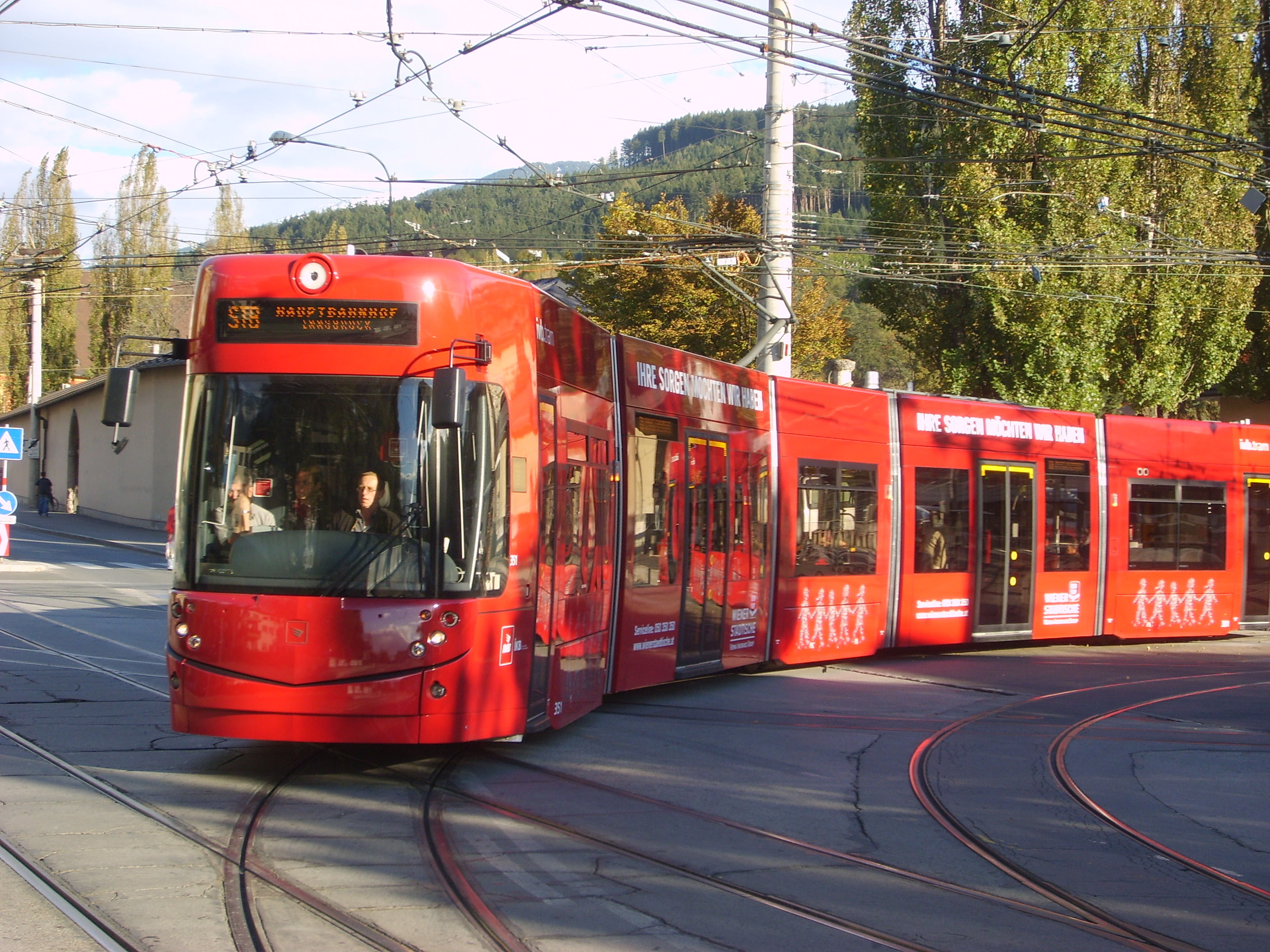 Innsbrucker Verkehrsbetriebe Tram car #351 running on line STB